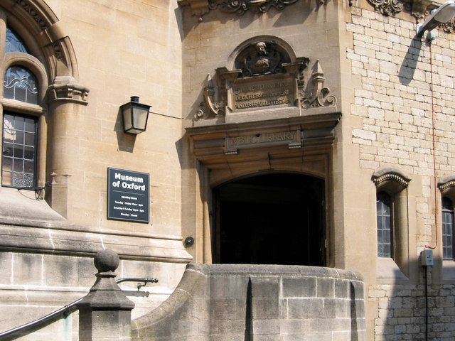 Museum of Oxford, St Aldate's Street, Oxford